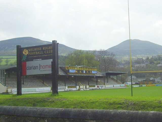 The Greenyards, Melrose. Melrose RFC's ground lies in the shadow of the mighty and mysterious Eildon Hills. The Greenyards is most famous as the host of the first ever 7-a-side rugby tournament in 1883, the abbreviated game having been invented by Ned Haig, a local butcher. The Melrose Sevenss, played on the second Saturday in April every year, remains the most popular Scottish 7's tournament.